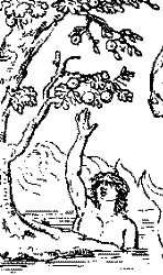 Tântalos, Sìsiphos and Íxion in their respective punishment.